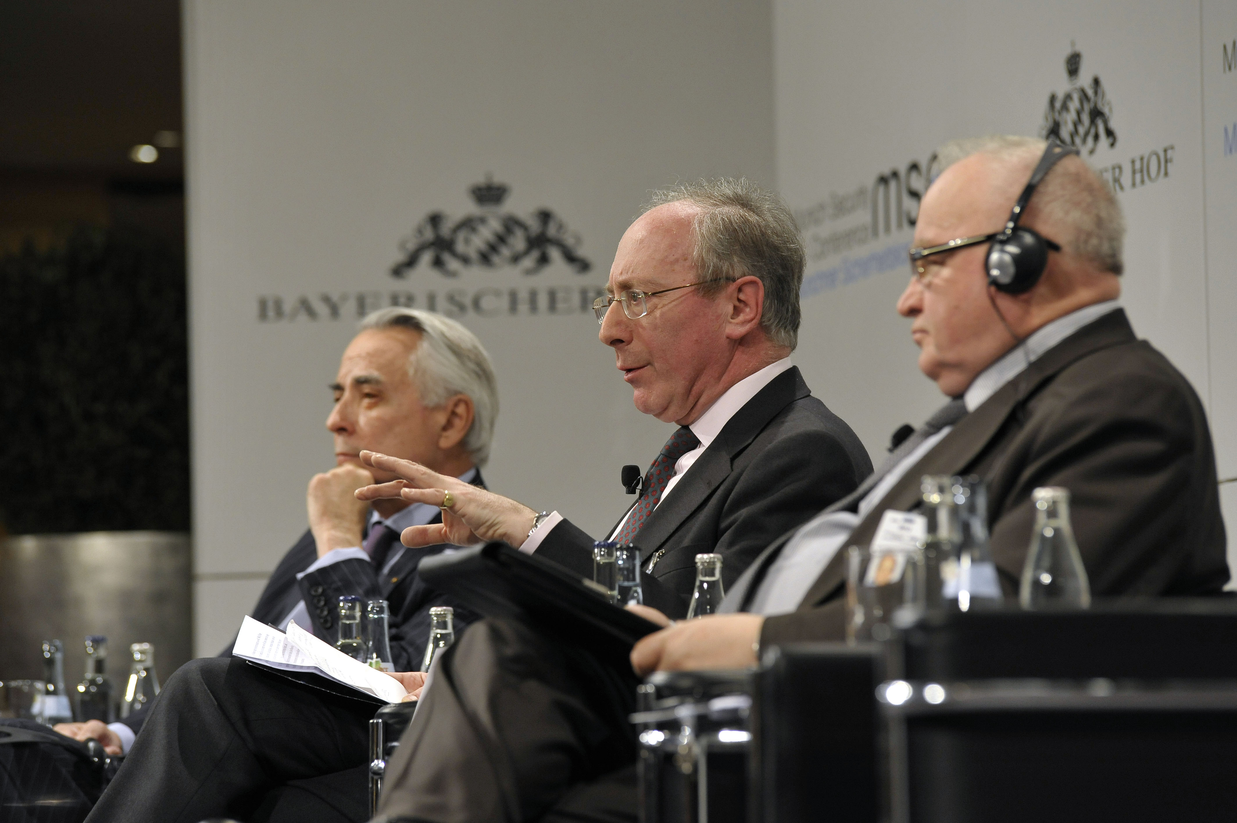 48th Munich Security Conference 2012: Richard Burt (le), McLarty Associates, USA, Sir Malcom Rifkind (mi), Member of the Global Zero Commision, Viktor Esin